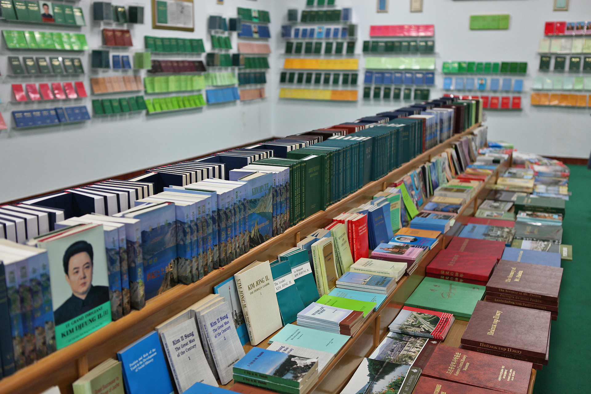 In local book-store. You can buy the book only from two authors. Kim Il-Sung and Kim Jong-Il, of course. Titles of some of the books: Kim Il Sung: "On Juche in our revolution" Kim Jong Il: "For the victory of the socialist case" Kim Jong Il: "The Songun-based revolutionary line is a great revolutionary line of our era and an ever victorious banner of our revolution" "In Memory of President Kim Il Sung: Eternal Sun of Mankind"...